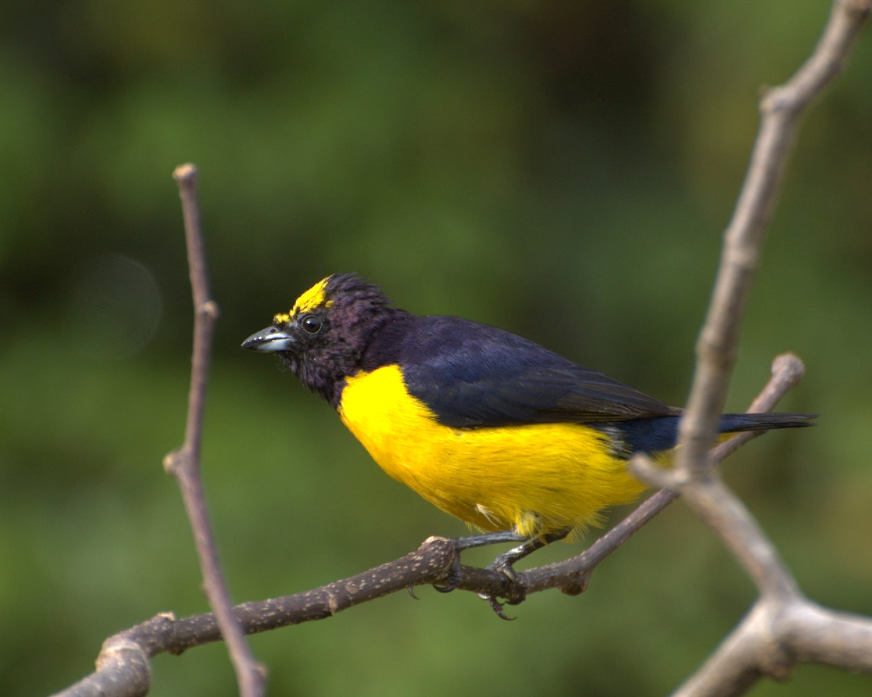 A Purple-throated Euphonia in Piraju-SP, Brasil.